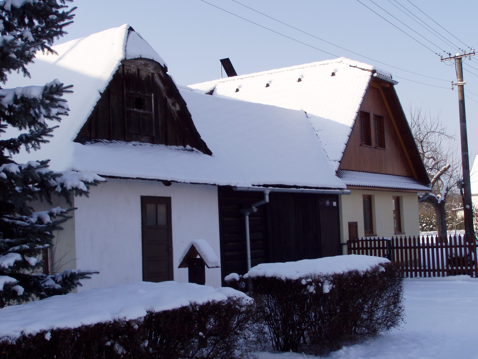 Kunčina - pop-building 3